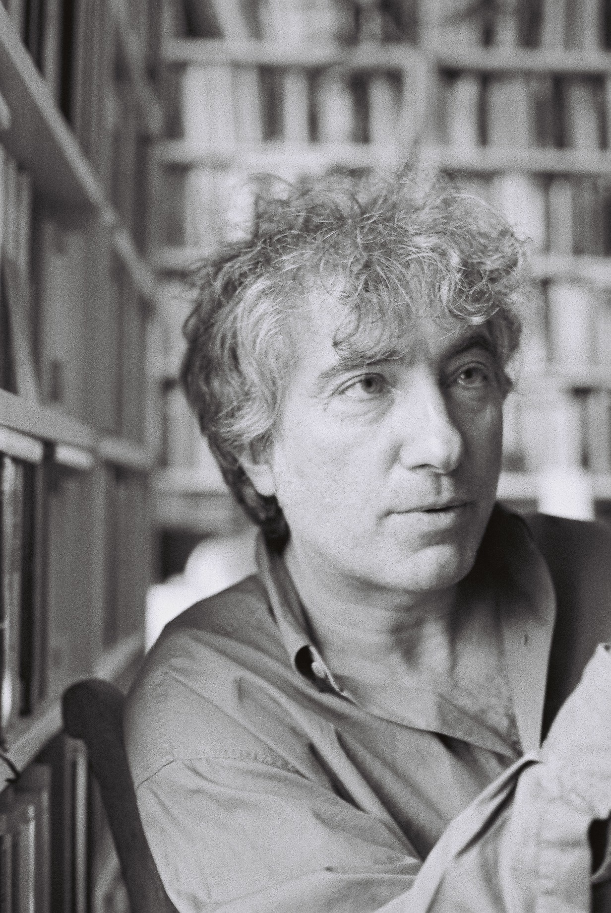 Portrait of Adam Phillips, photographed by Bracha L. Ettinger, London 2007